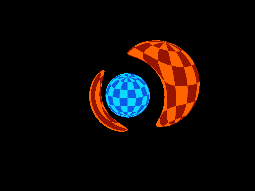 Gravitational lensing of the image of a massless companion star (red) by a neutron star (blue). The companion star is sitting behind the neutron star. Its image is distorted by the gravitational lensing of light. The geometry and the colors of the depicted scene is astrophysically unrealistic (in the vicinity of a neutron star, a companion star would be not stable). They were chosen so that the influence of gravitational lensing would be clearly visible. Mass of the neutron star: 1, radius of the neutron star: 4, radius of the companion star: 8, orbital radius: 20, all numbers in dimensionless units.